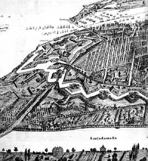 Detail from topographical picture showing the area outside the Østerport city gate. The diagonal road at the bottom between the fortifications and The Lakes is Farimagsvejen